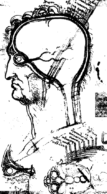 Drawing of parts of the human brain by Leonardo da Vinci